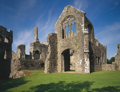 Lamphey Bishop's Palace. Posted via email from Vale's posterous